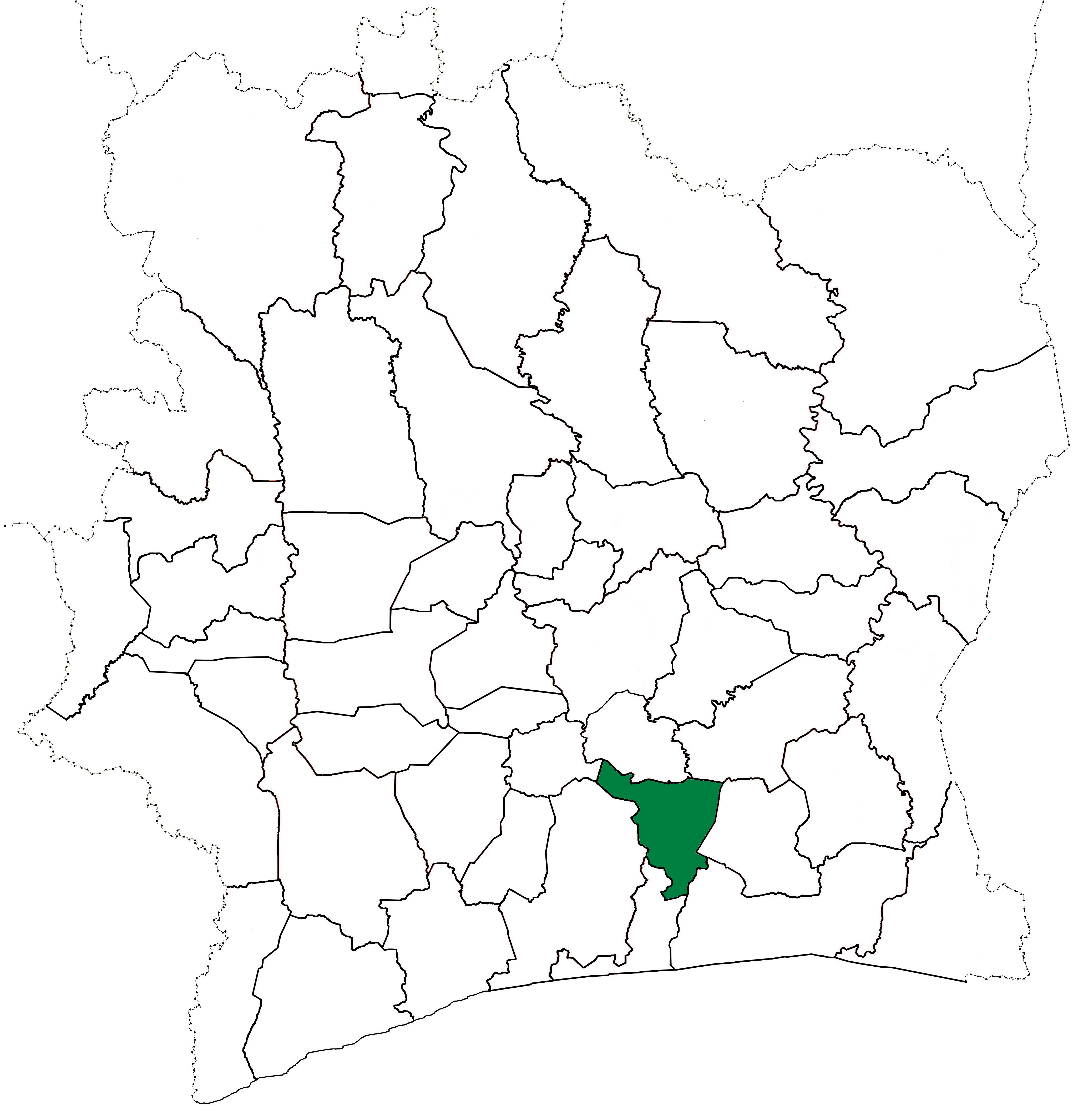 Locator map for Tiassalé Department in Côte d'Ivoire when it was created in 1988. Tiassalé Department kept these boundaries until 2013, but other boundary changes to subdivisions of Côte d'Ivoire began to be made in 1995.